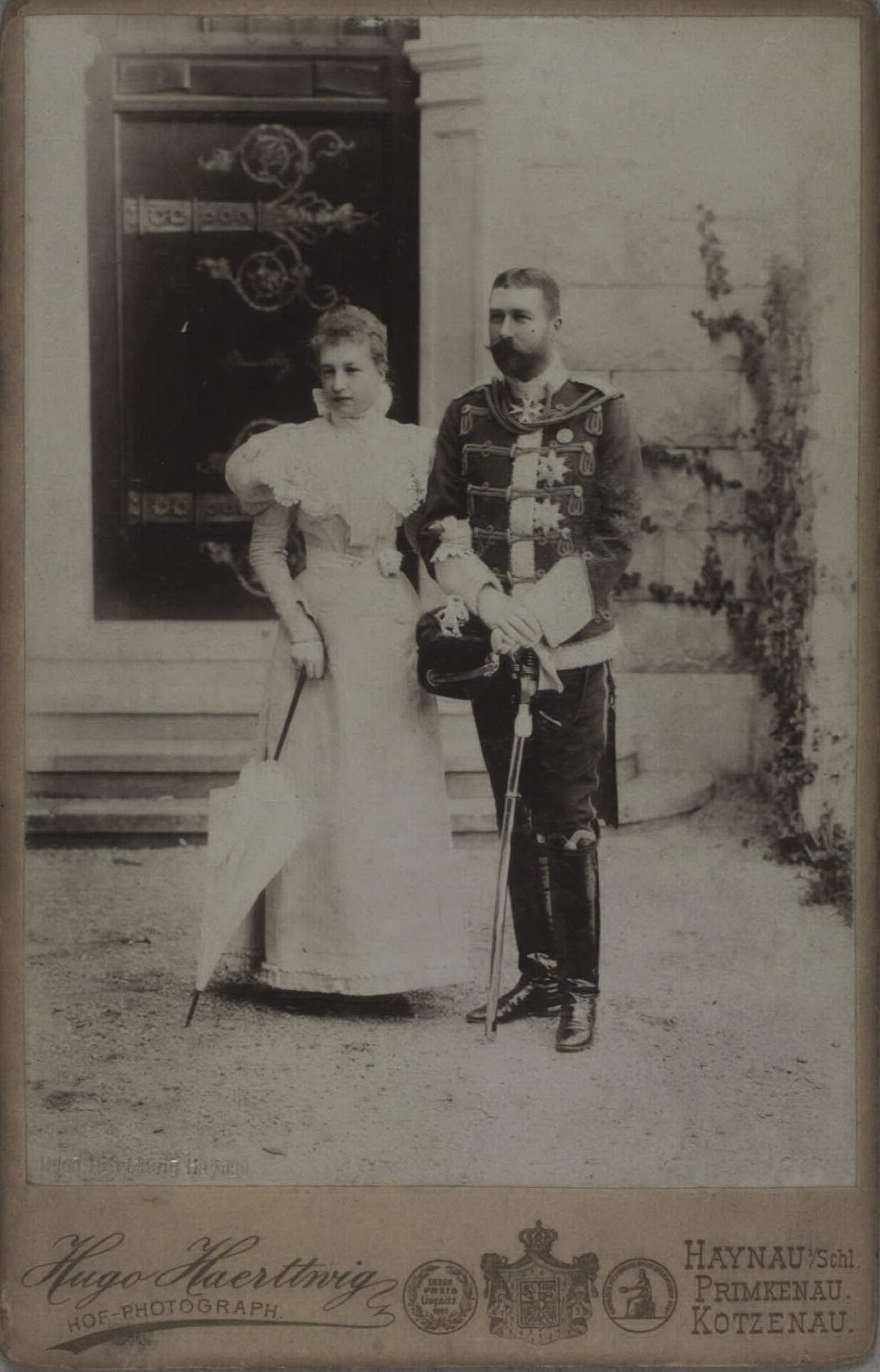 Dorothea von Sachsen-Coburg und Gotha (1881-1967) with her husband Ernst Gunther, Duke of Schleswig-Holstein (1862-1921)